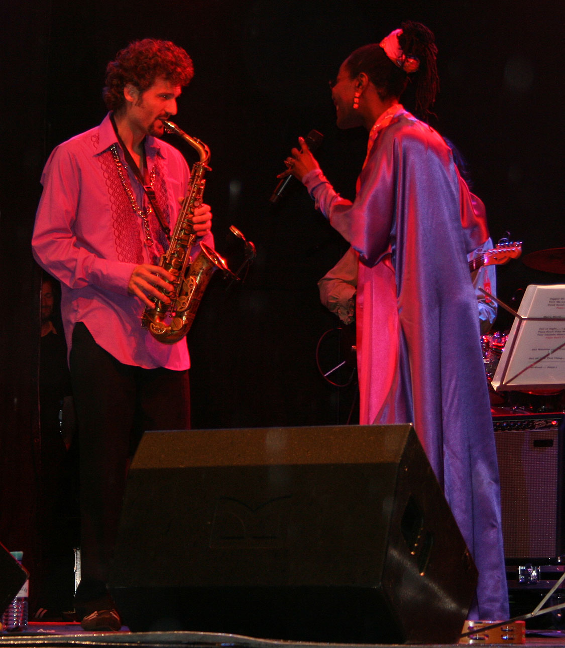 Dorretta Carter with Sebastian Grimus (sax.), performing a Tribute to James Brown in Vienna